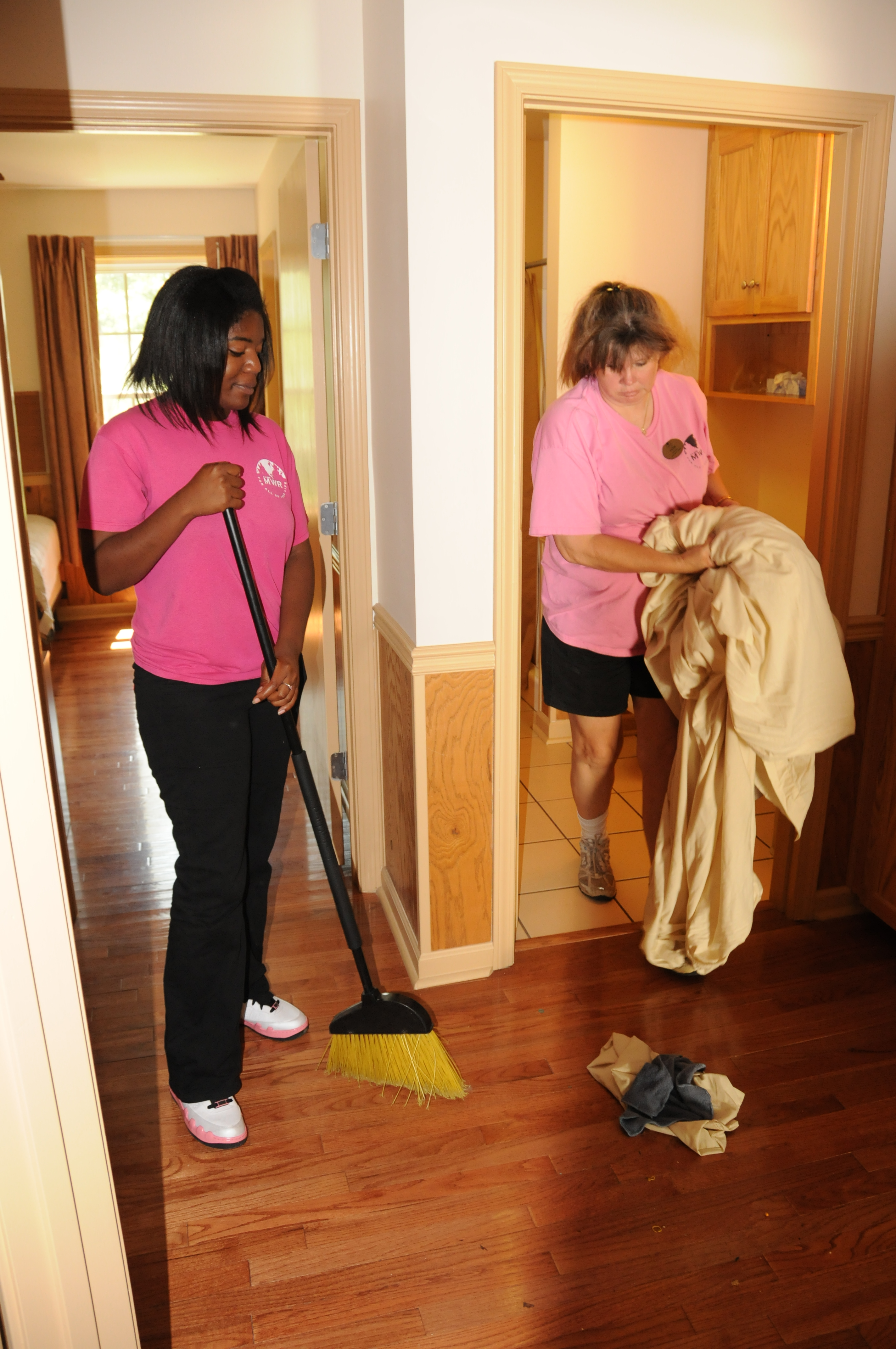 DaÃ±ae Jennings sweeps the floor while Vickie Lee picks up linens in one of the Lake Tholocco West Beach Singing Pines Cabins July 24.